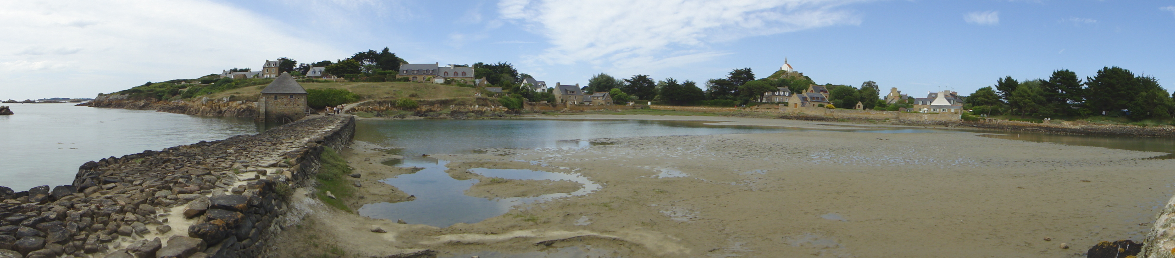 The "Birlot" tide mill, on Île-de-Bréhat.